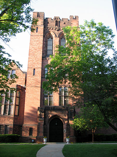 Chapman Hall at University of Wisconsin–Milwaukee